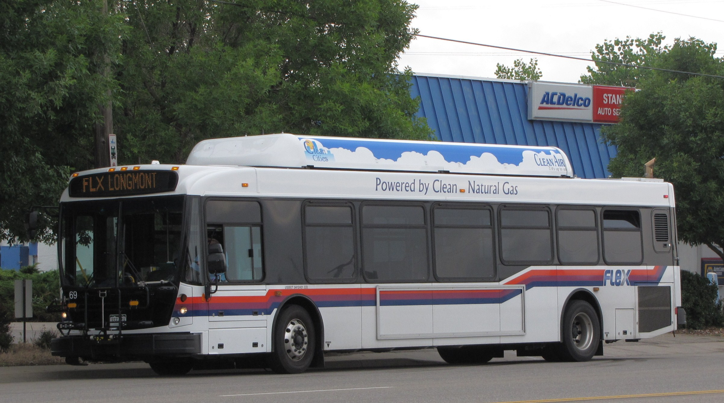 Compressed natural gas-powered bus in Loveland, Colorado operated by FLEX Northern Colorado.